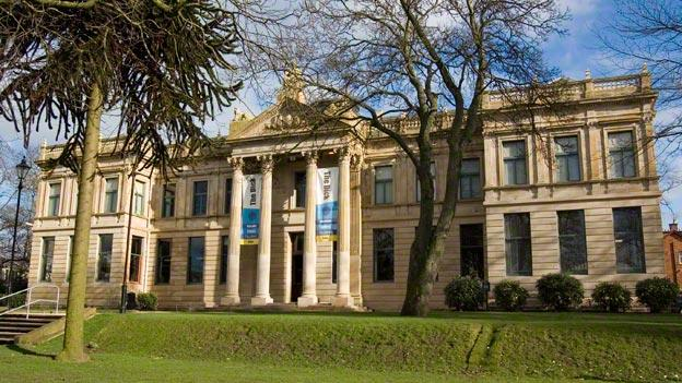 An impressive building with a large statue of Minerva on the Portico overlooking the main antrance.